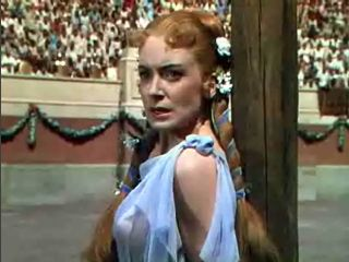 Screenshot of Deborah Kerr from the trailer for the film Quo Vadis